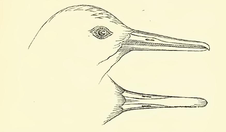 From A manual of the birds of New Zealand. By Walter L. Buller, C.M.G., Sc.D., F.R.S.(1882)